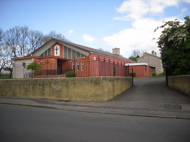 Saint Andrews Chapel in Airdrie This Chapel serves the Catholic community of Burnfoot and Whinhall in Airdrie, my mother attended this Chapel for many years which gave her a lot of pleasure.